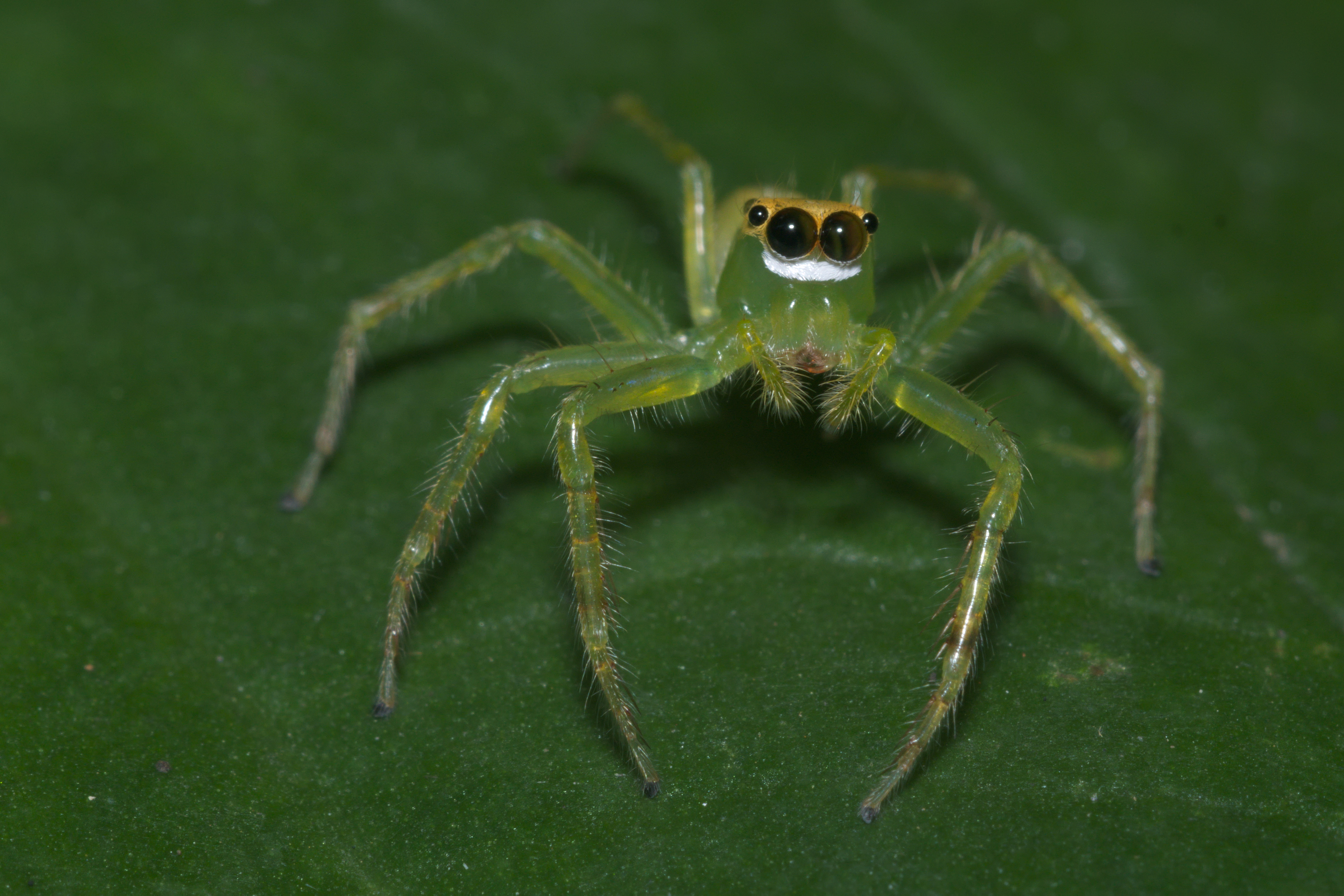 Epeus is a genus of the spider family Salticidae (jumping spiders). They are often found on broad-leaved plants or shrubs of rain forest, or in gardens of Southeast Asia. (ID courtesy: SpiderIndia)